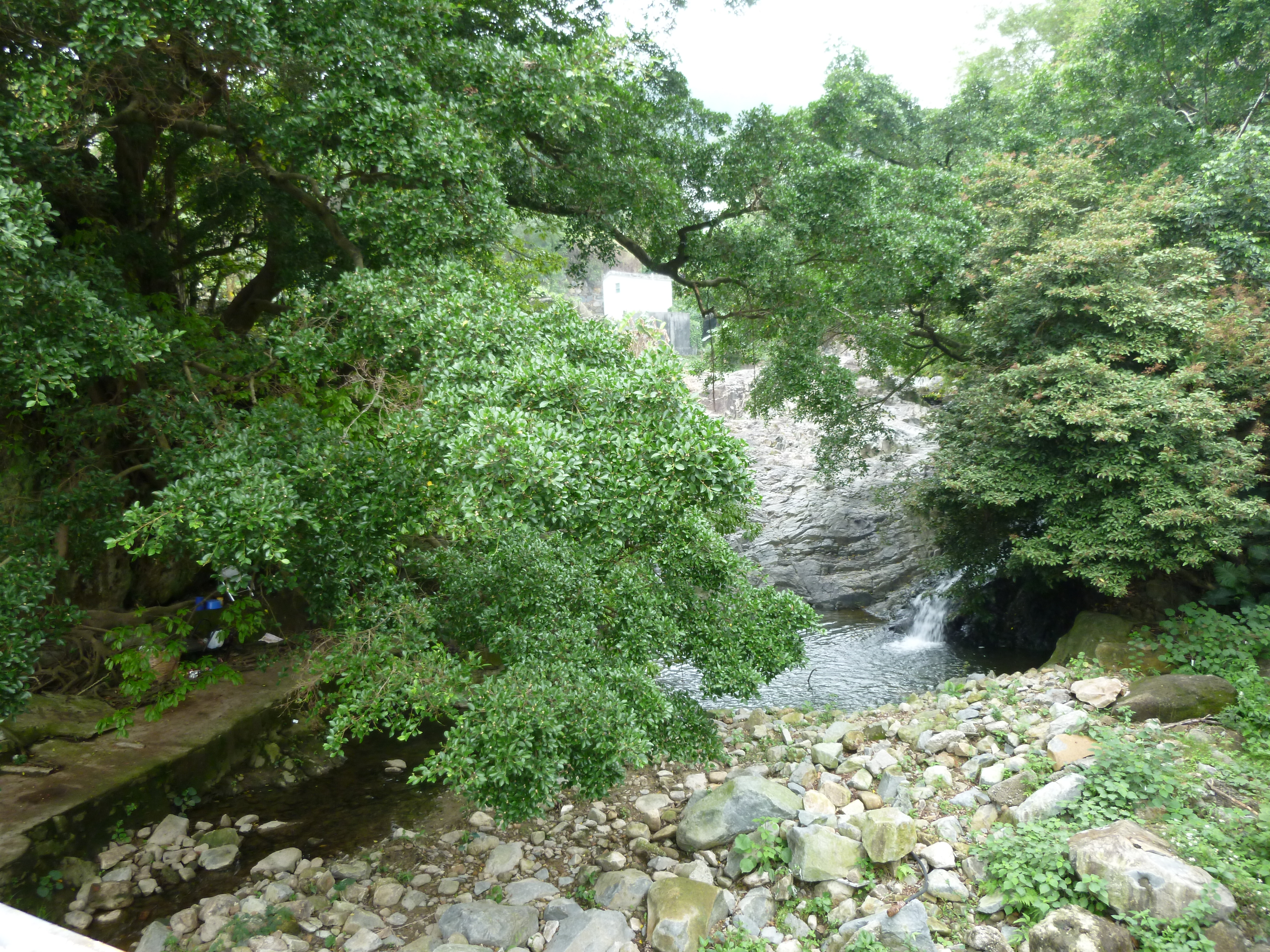 Sam Dip Tam (Lo Wai, Tsuen Wan, Hong Kong) 中文（香港）: 三疊潭 (香港荃灣老圍)